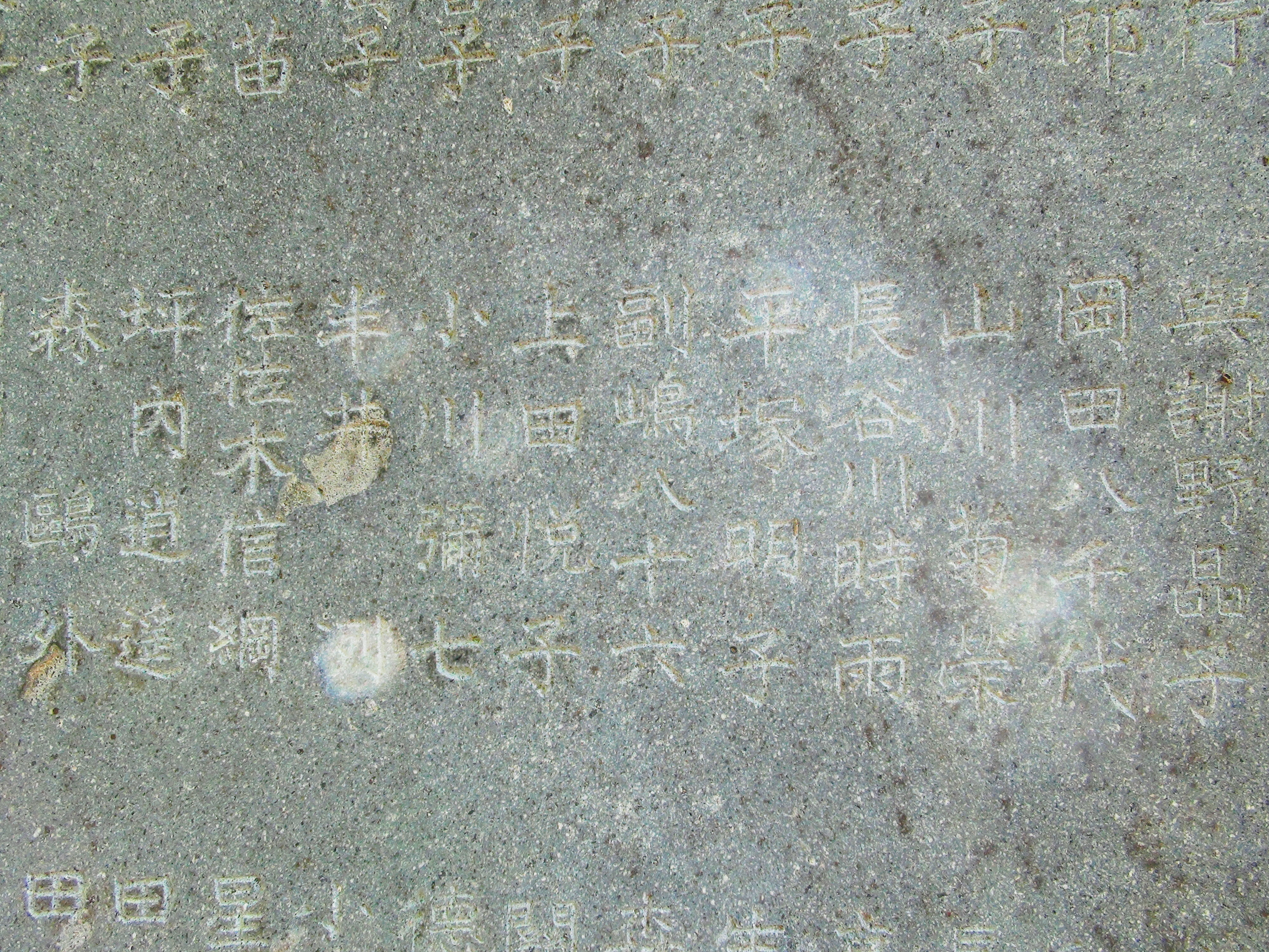 List of person of support names of the backside Ichiyo Higuchi monument